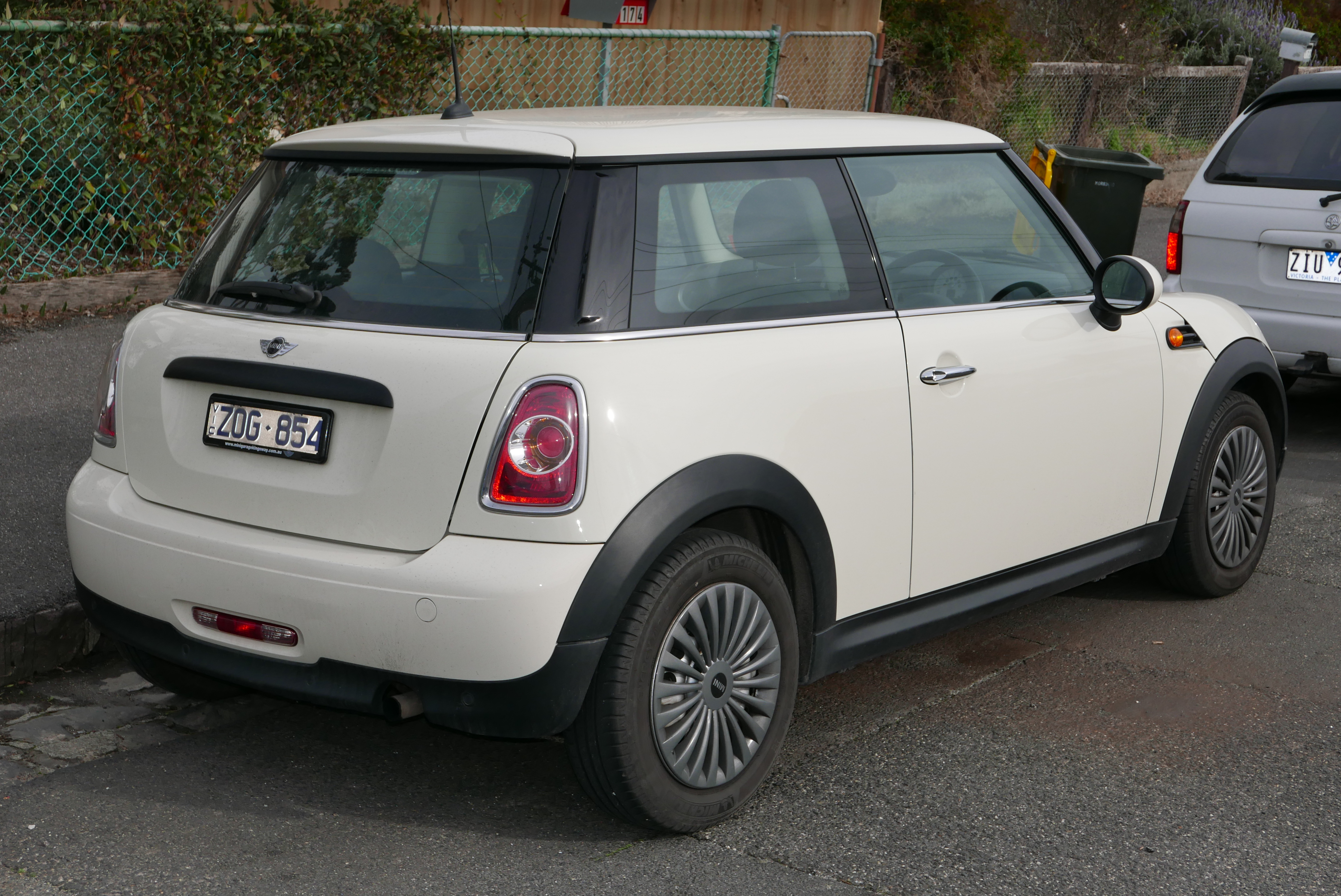 2013 Mini Hatch (R56 LCI) Ray hatchback. Photographed in Brunswick East, Victoria, Australia. Vehicle registration enquiry resultsJurisdictionVictoriaRegistrationZOG854Chassis codeWMWSR32000T510504Engine codeB183J358Compliance date2013-01Year of manufacture2013